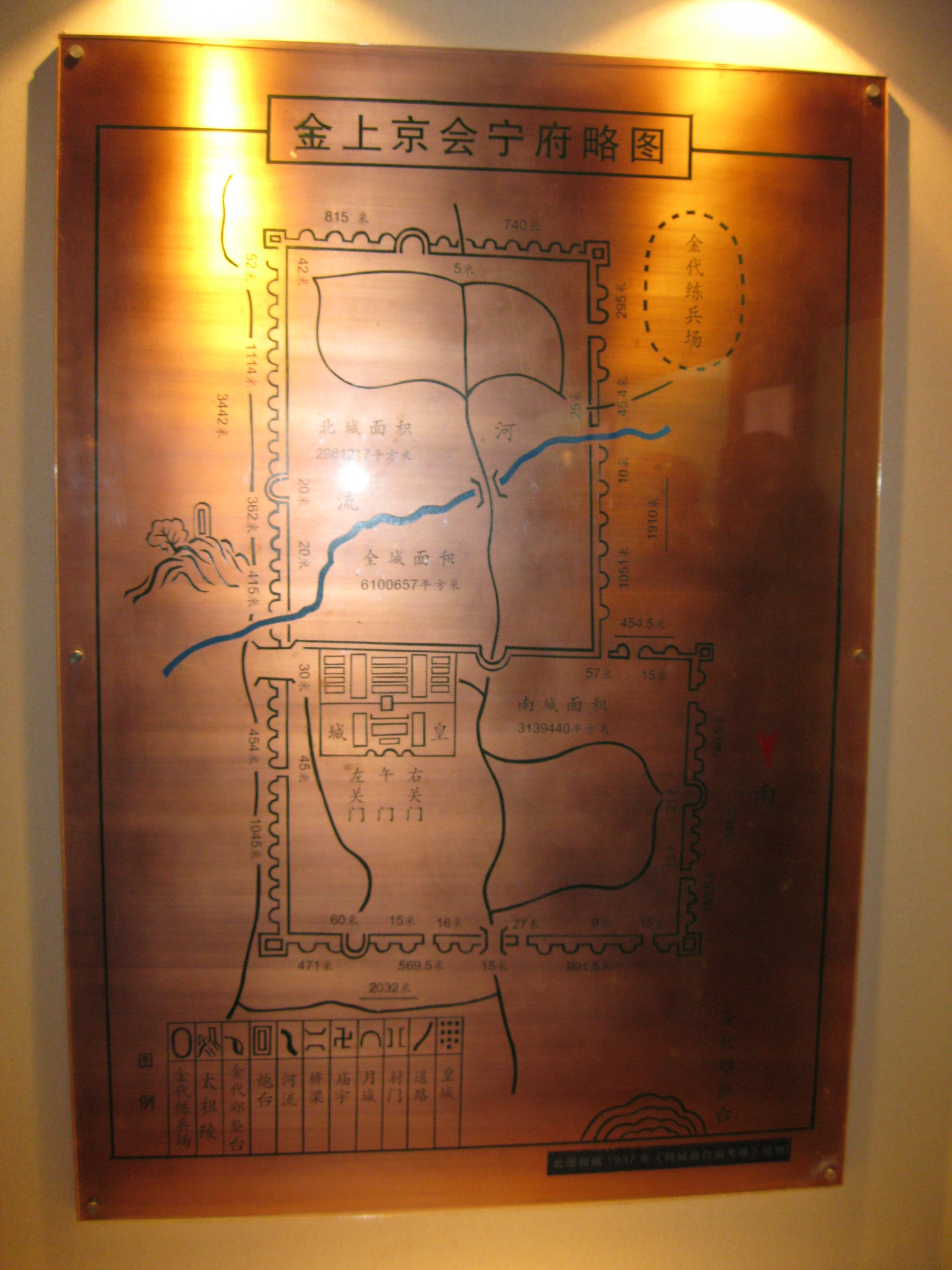 Plan of Huiningfu historical city from the Museum of Huiningfu, Acheng, Harbin, China.